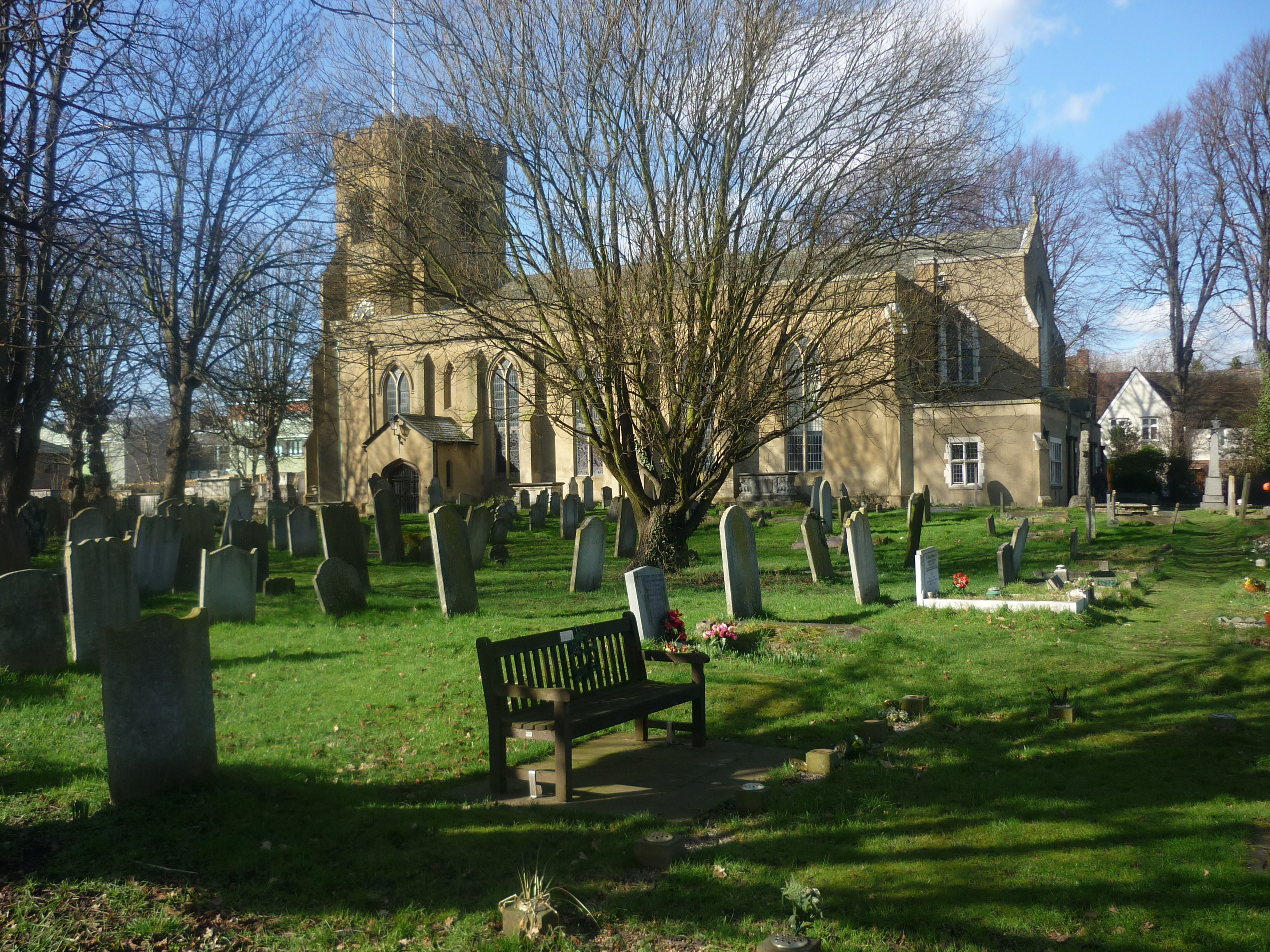 St Mary's Church, Walthamstow, London E17